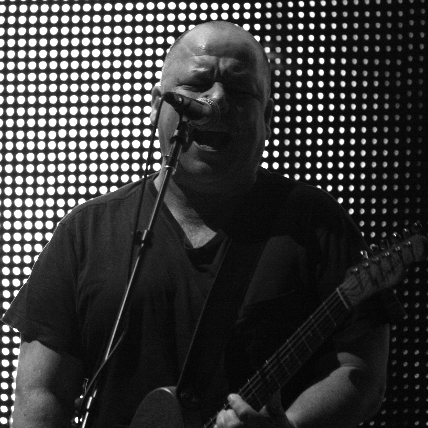 Black Francis from Pixies in Washington DC.